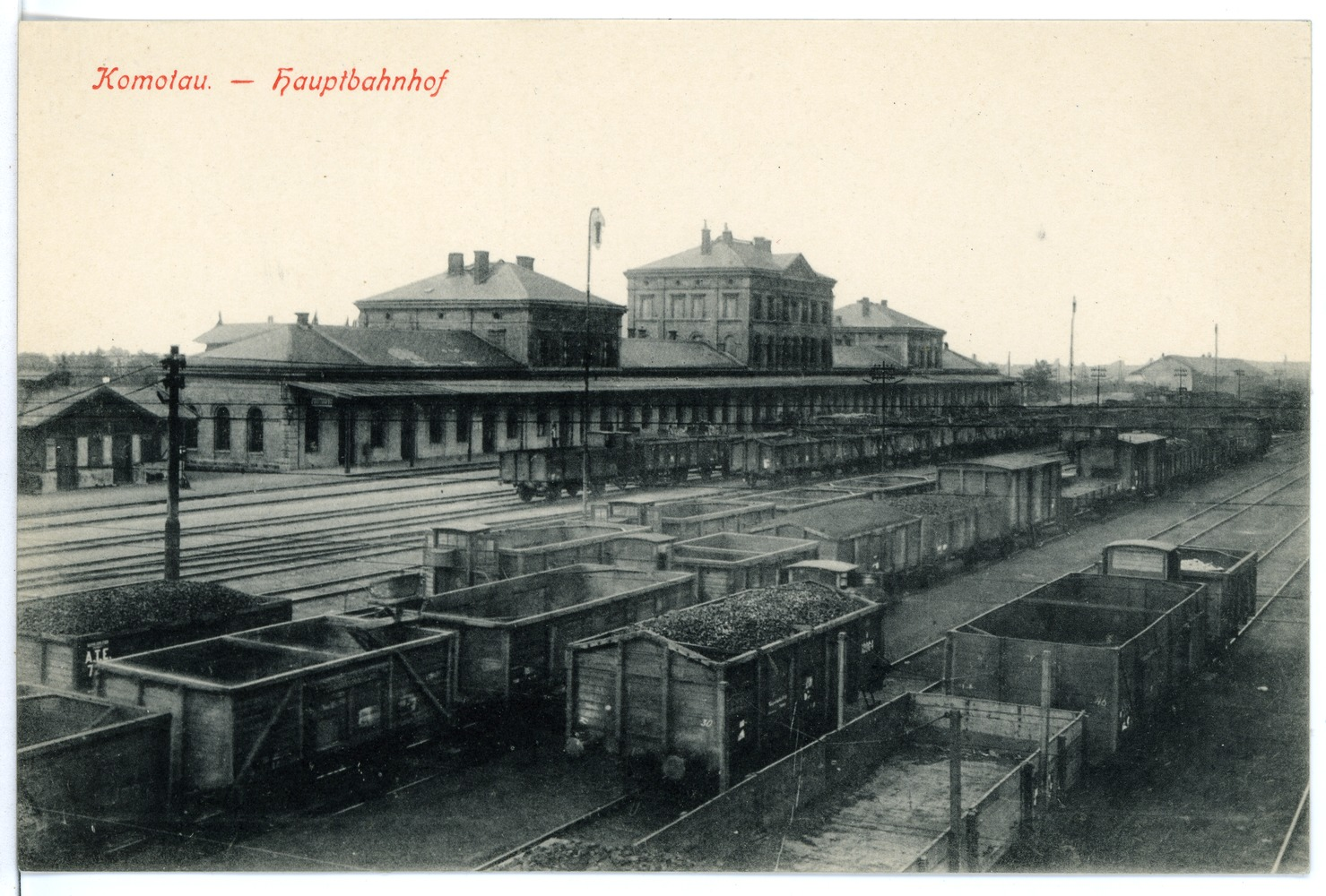 This postcard is from publisher Brück & Sohn in Meißen ( This postcard has a unique number 15836 and is available in a higher resolution at the publisher. This images was uploaded in a cooperation project between Wikipedians and the publisher.